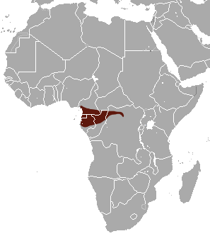 Goliath Shrew (Crocidura goliath) range